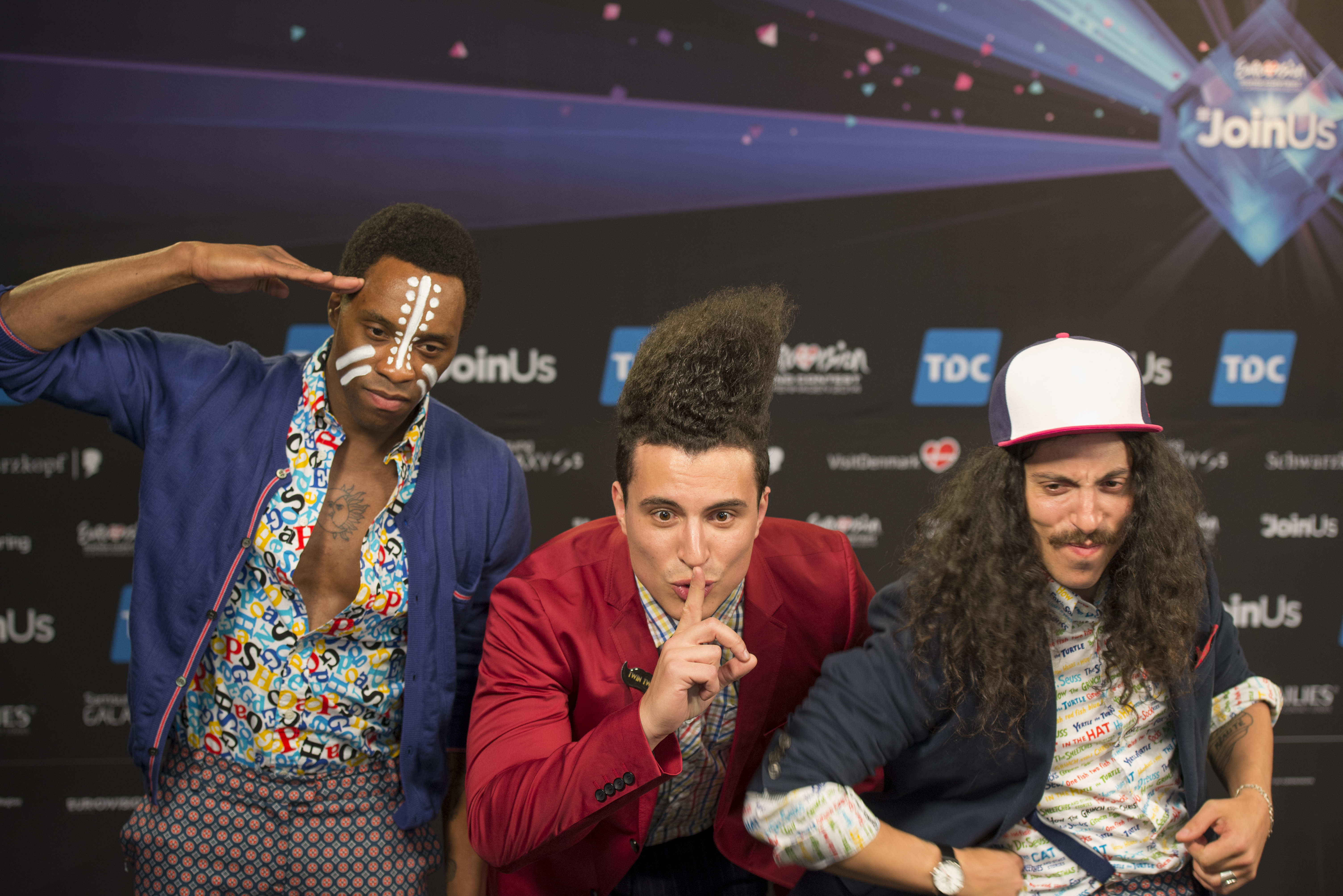 Twin Twin at a Meet & Greet during the Eurovision Song Contest 2014 Copenhagen. (Help translate this text)